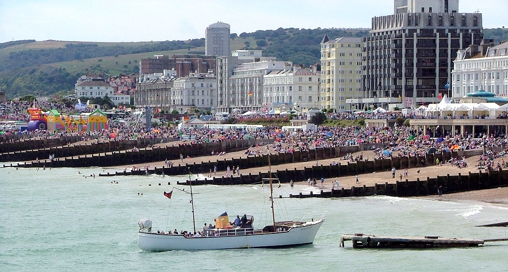 Eastbourne beach and parade from the sea. Photo was taken on August 13, 2005 using a Fujifilm FinePix S5000.